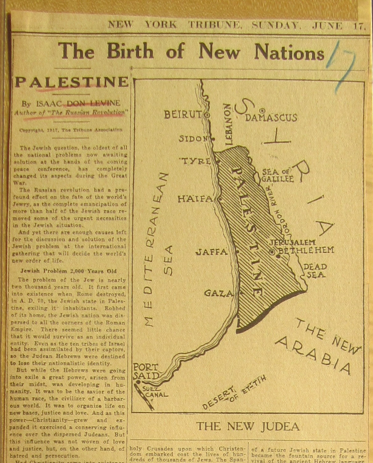 A very interesting article from the New York Tribune on June 17, 1917, announcing the a new nation to be carved out of the Ottoman Empire called Palestine.